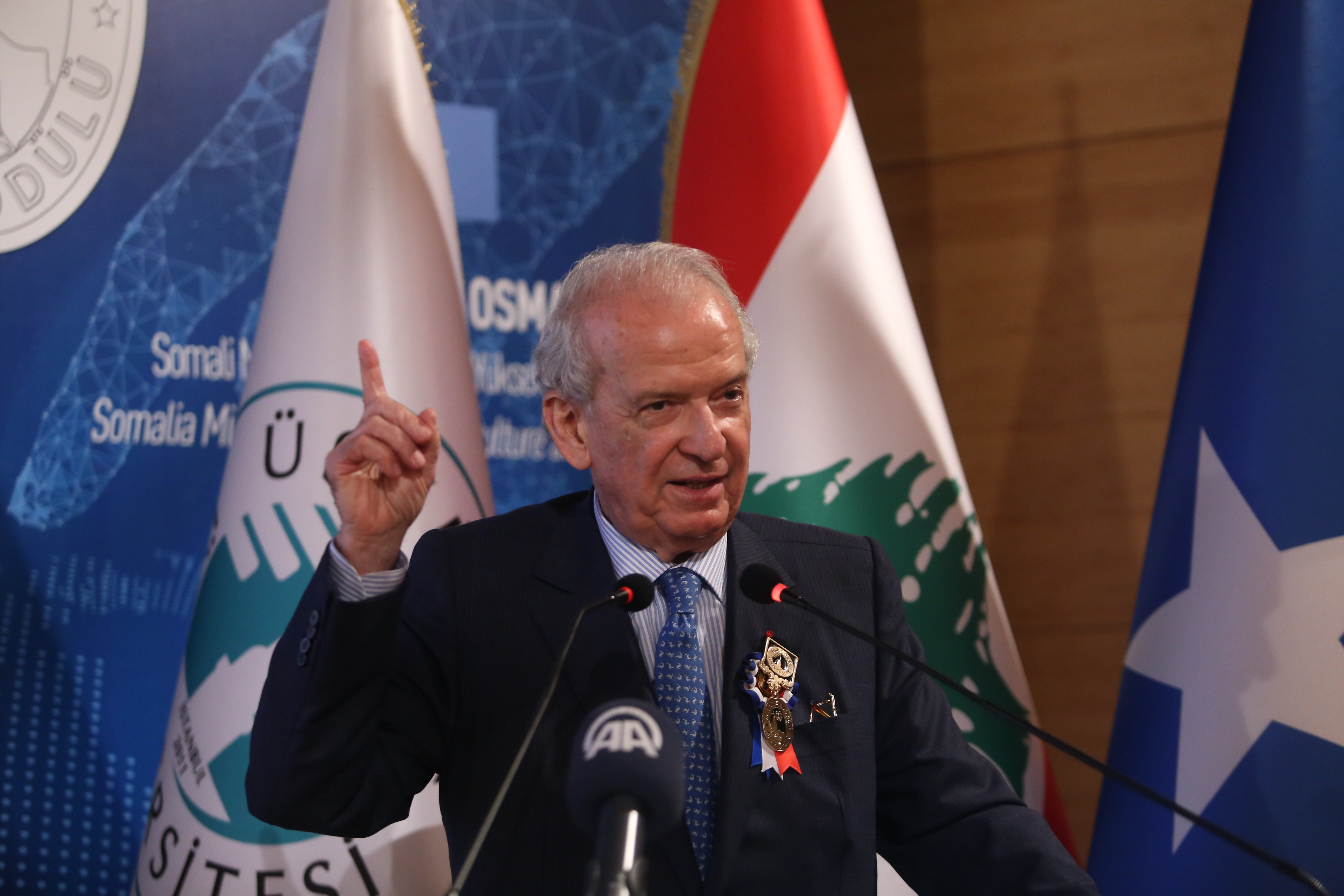 Marwan Hamadeh receiving Science Award of Uskudar University